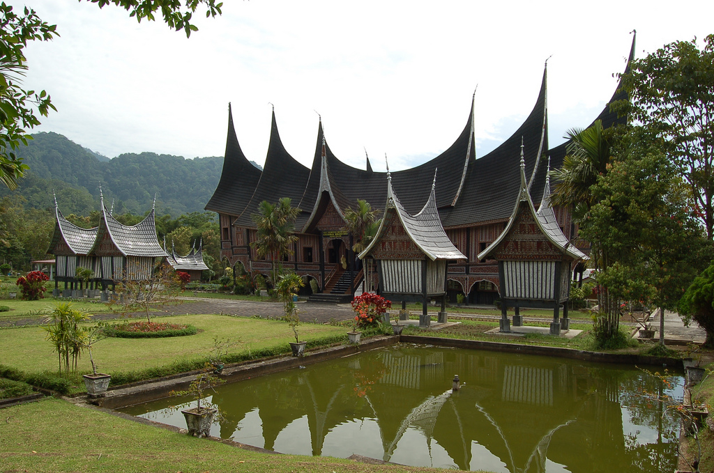 Rumah Gadang (Big House) in Padang Panjang, West Sumatra. In front of the house are four small huts to store harvested paddy called "rangkiang".